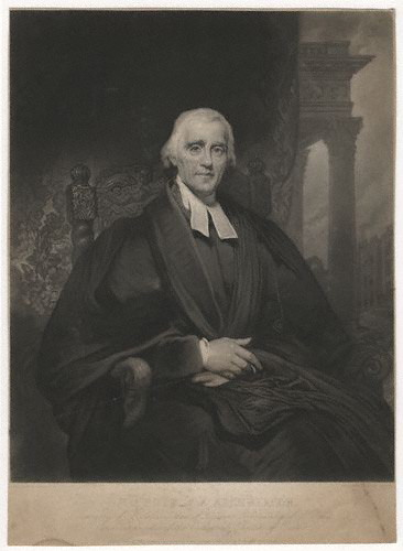 Mezzotint portrait of Joseph Holden Pott (1759–1847).